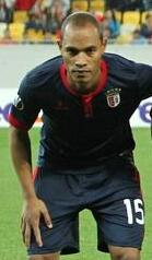 SHAKHTAR DONETSK VS. SPORTING BRAGA 2 - 0